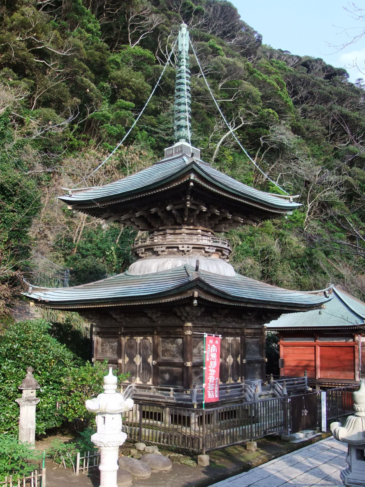 Tahōtō pagoda at Nago-ji temple in Tateyama, Chiba